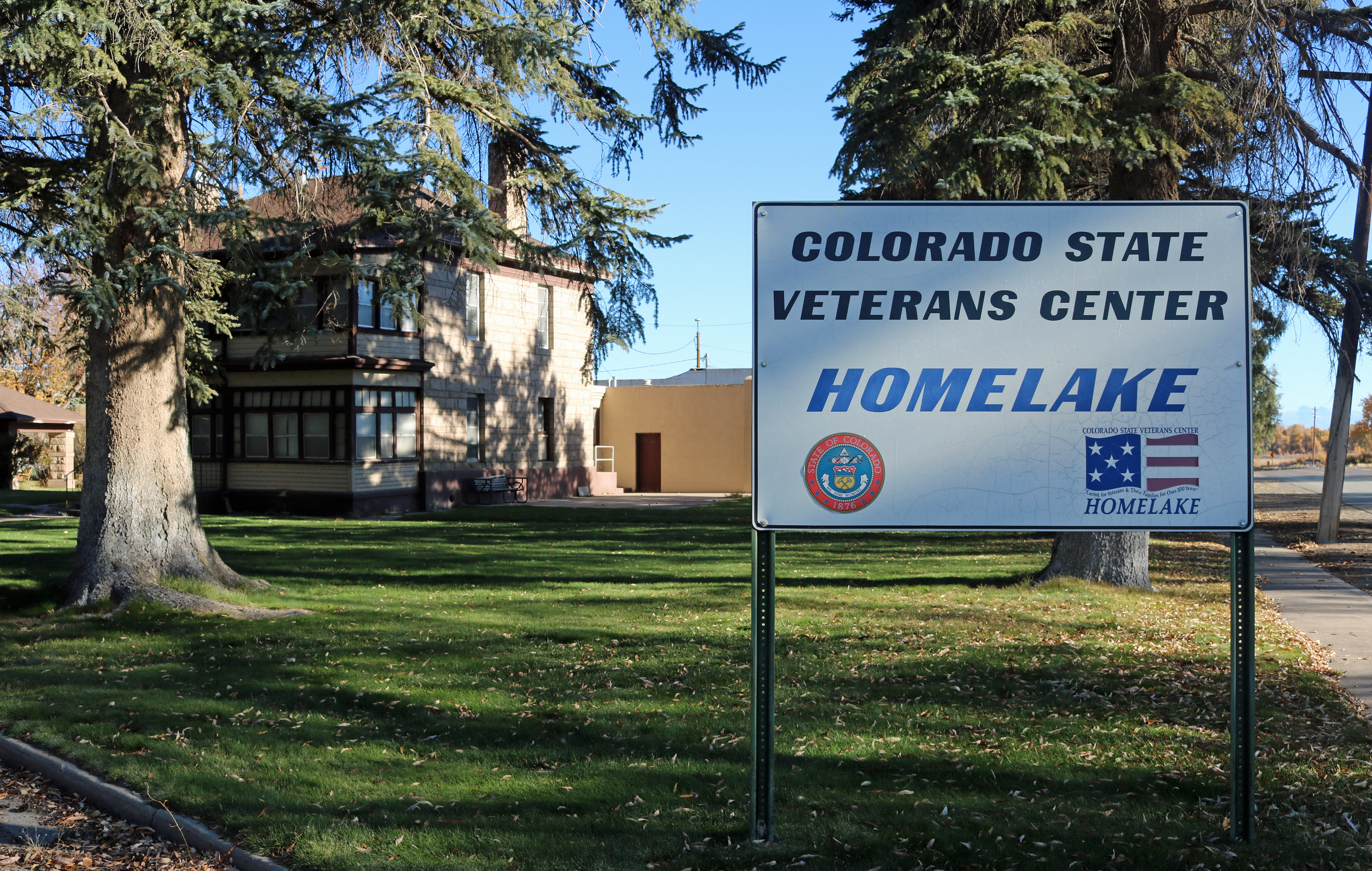 The Veterans Community Living Center at Homelake, located at 3749 Sherman Avenue in Monte Vista, Colorado.